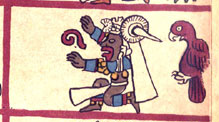 Yohualtecuhtli representado no Códice Borbónico (p. 16), segundo o indicado en Tlacuilolli: Style and Contents of the Mexican Pictorial Manuscripts with a Catalog of the Borgia Group.